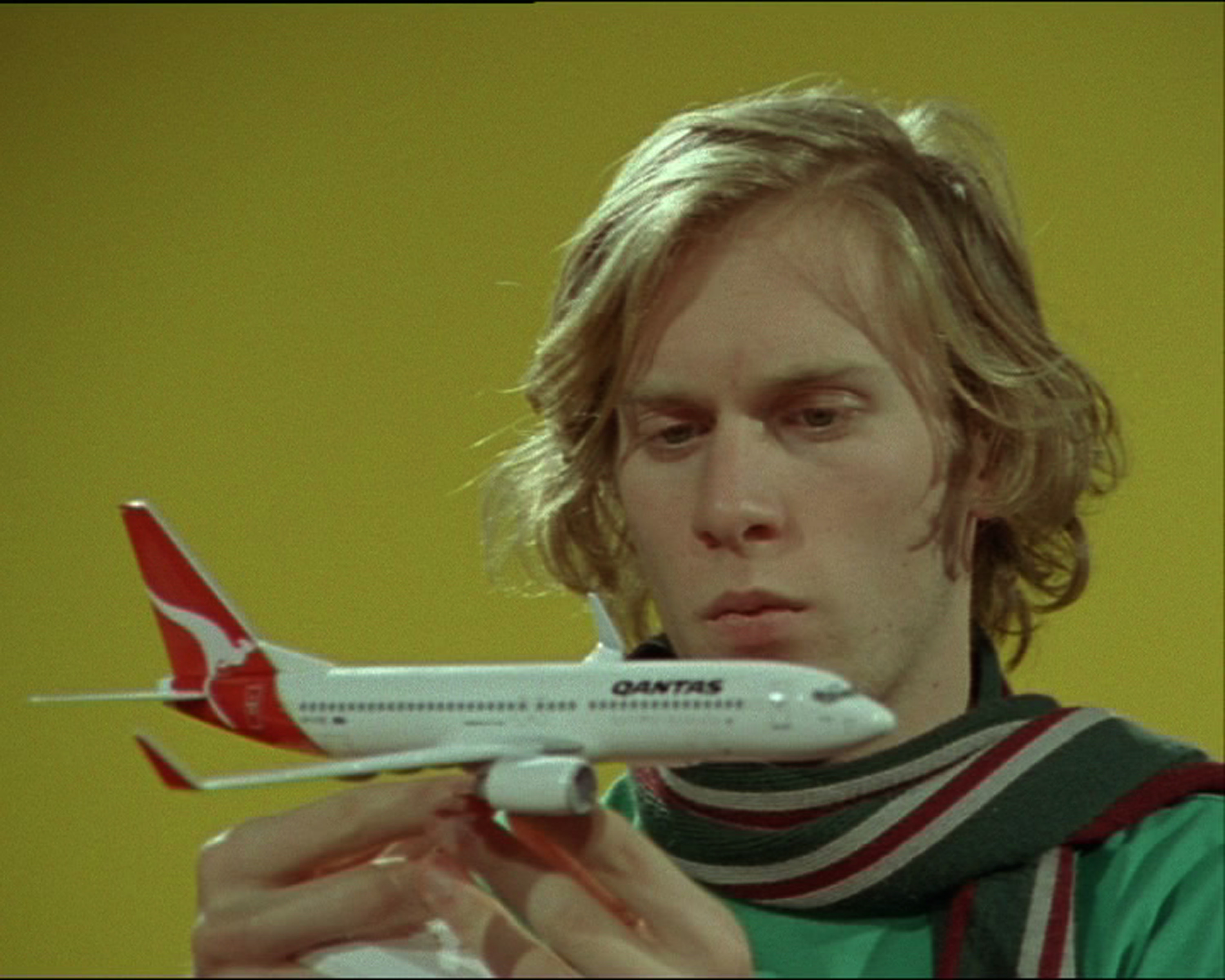 Video still, actor Paul Rooney with plane model